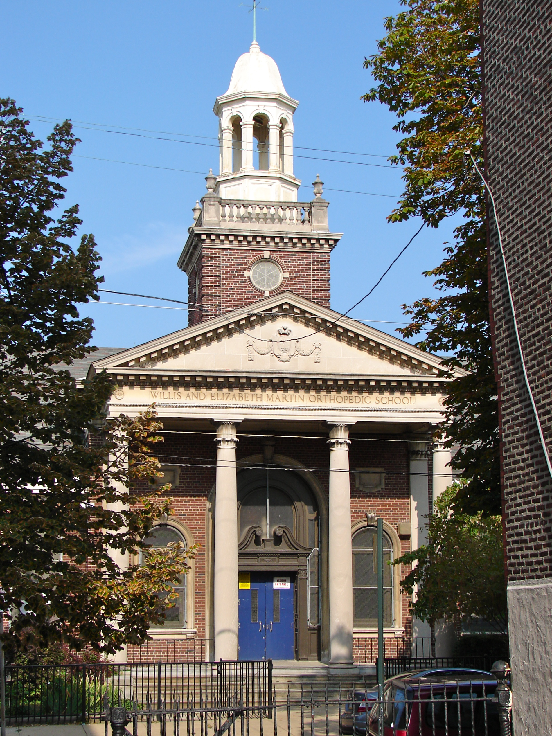 Martin Orthopedic School in Philadelphia on the NRHP since December 4, 1986. At 800 North 22nd St. in the Fairmount neighborhood of North Philly. Note that across the street is the Bach School at 801 N. 22nd, also on the NRHP.